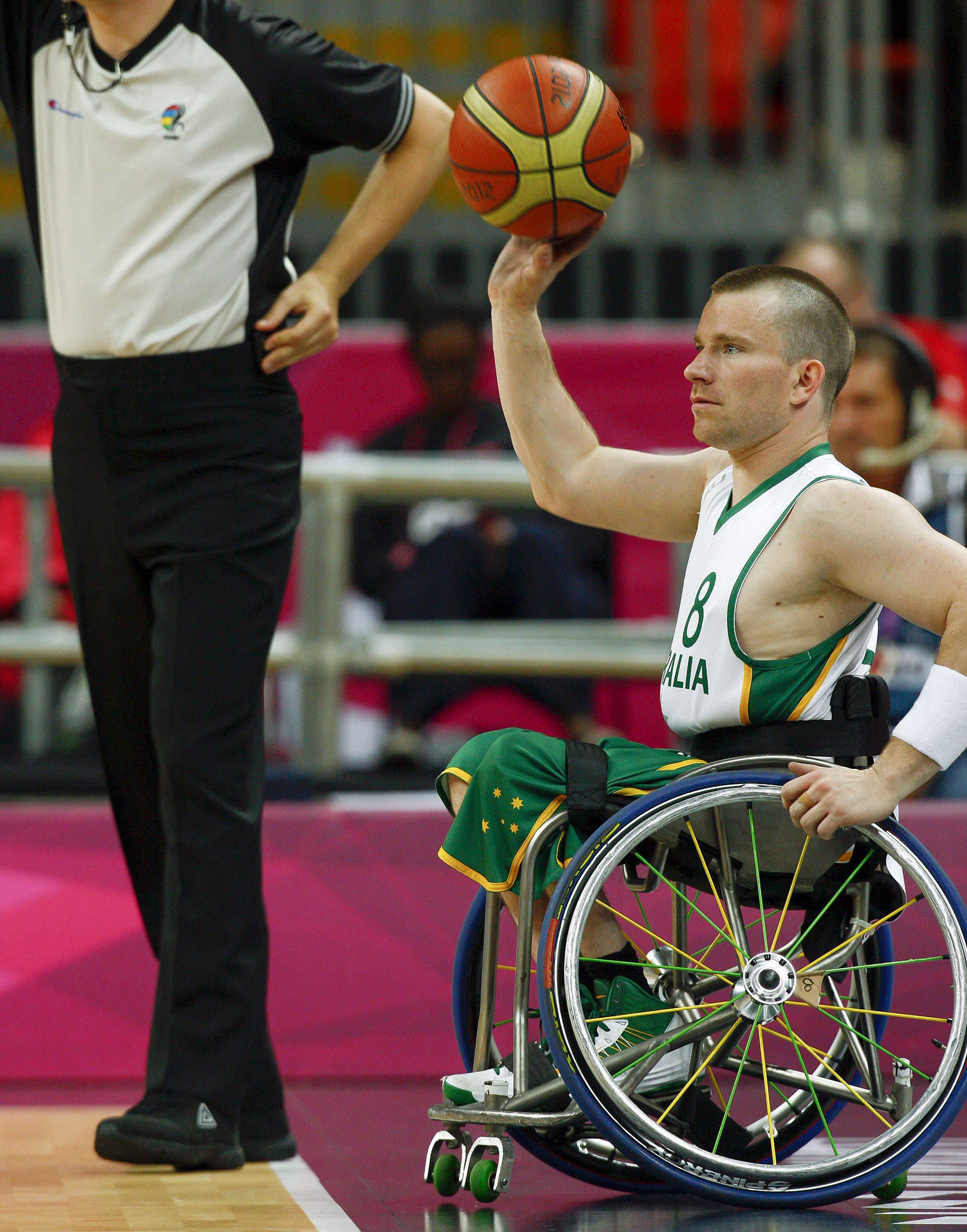 Photograph of Australian Paralympic team member Michael Hartnett at the 2012 Summer Paralympic Games in London